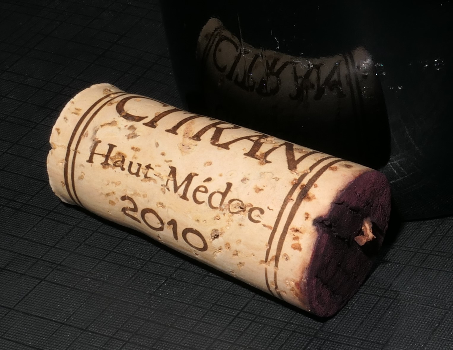 The cork of a bottle of Château Citran 2010.